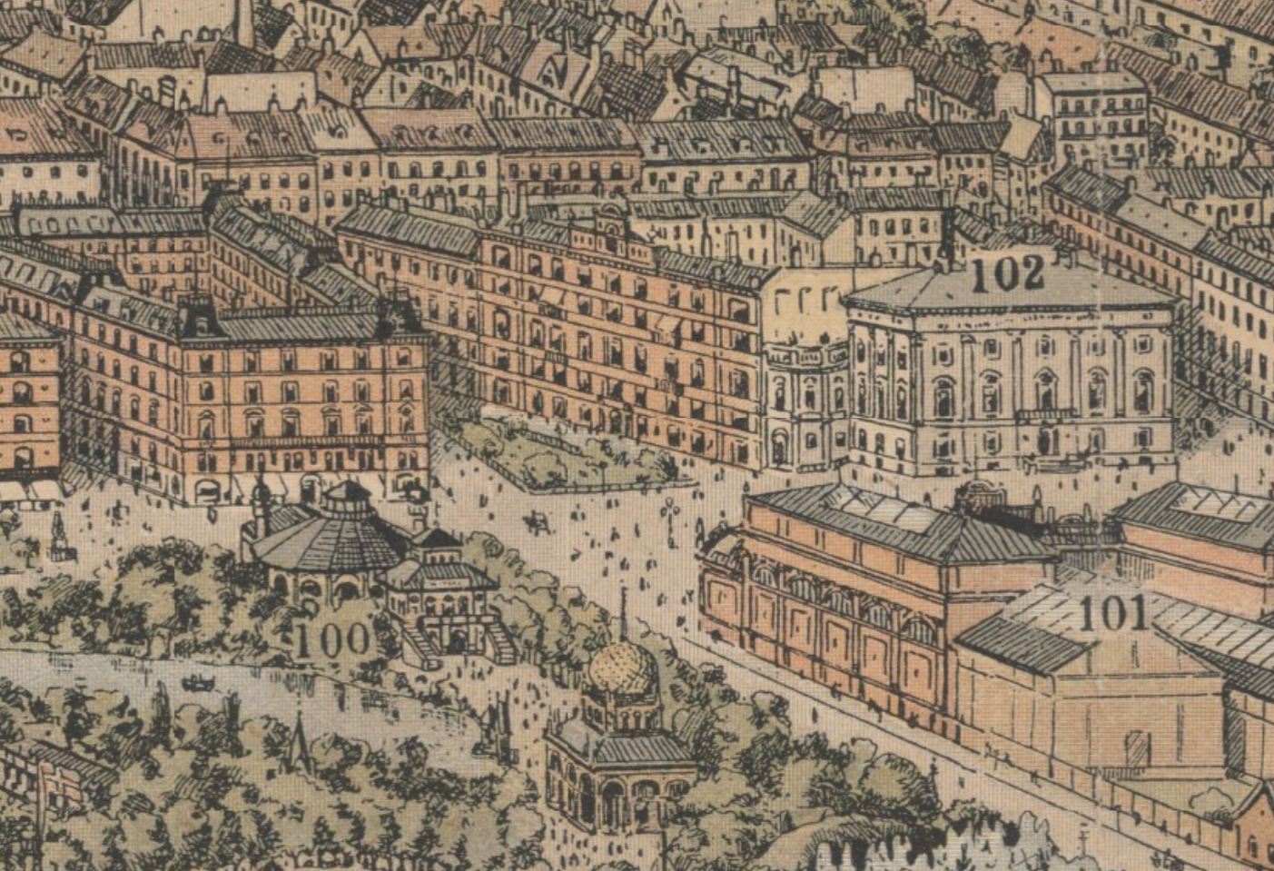 Detail showing the later Dantes Plads as part of an extension of Ny Vestergade on an 1897 drawing of Copenhagen, Denmark.